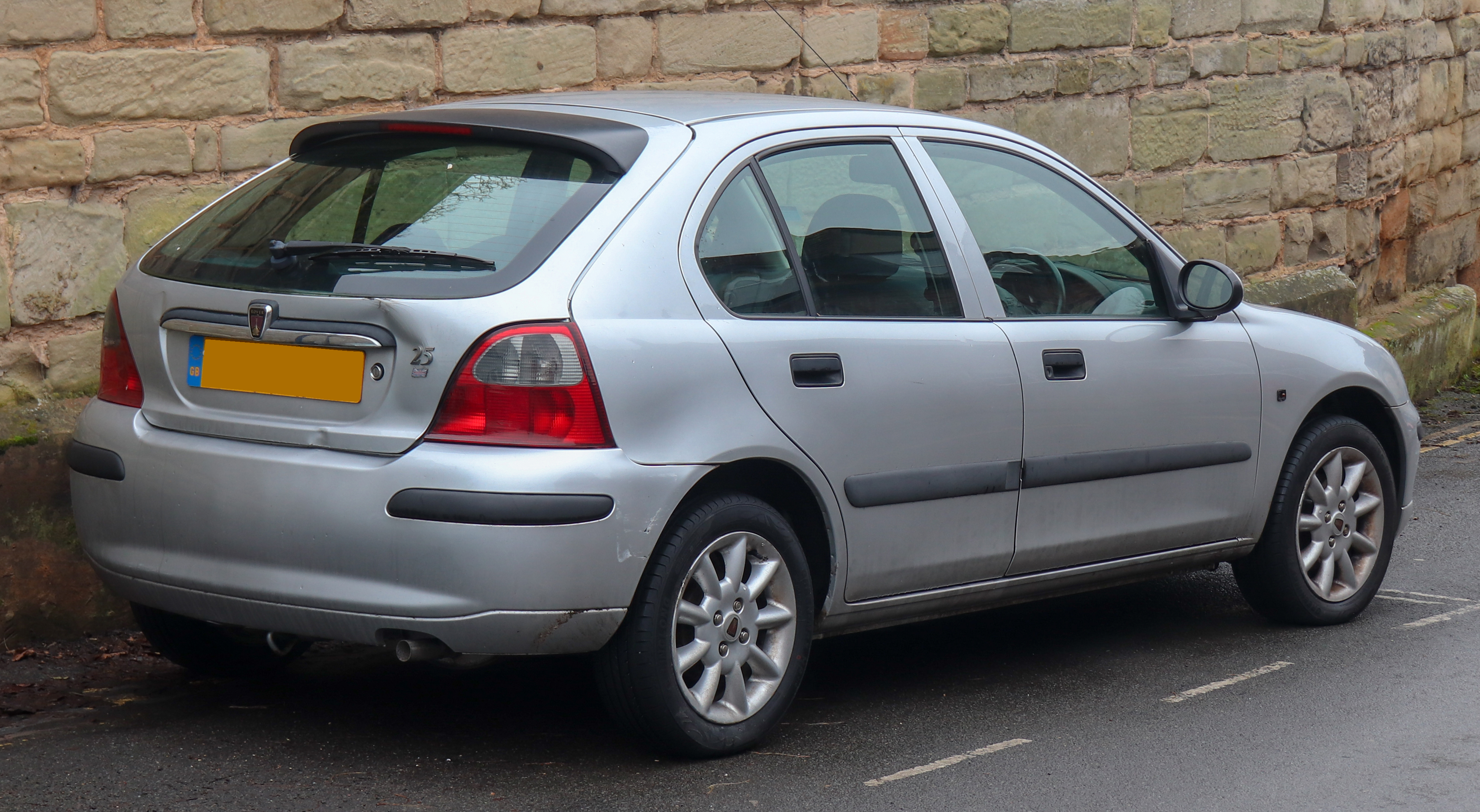 2003 Rover 25 Sprit S 1.4 Rear Taken in Warwick